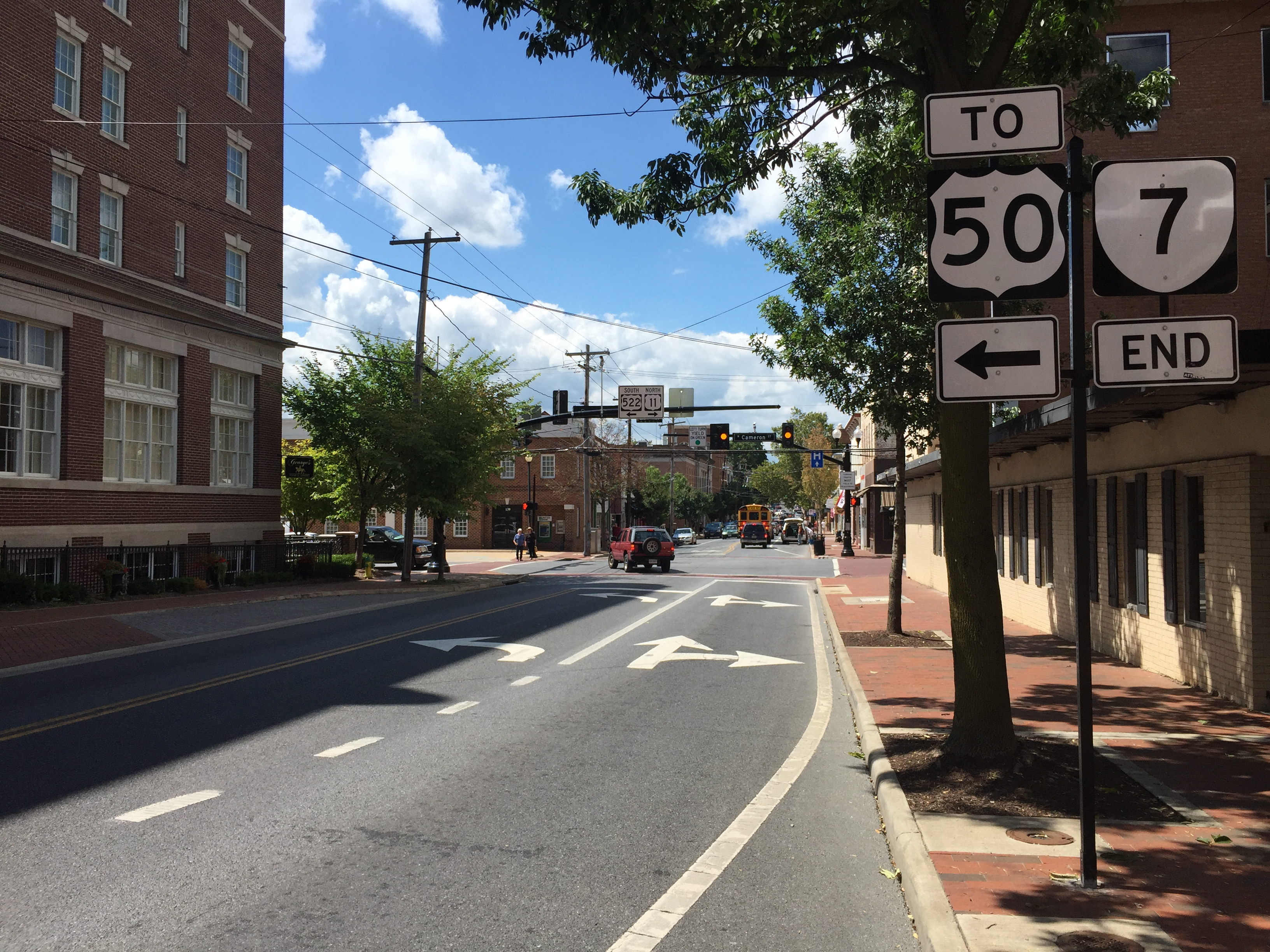 View west along Virginia State Route 7 (Piccadilly Street) at U.S. Route 11 and U.S. Route 522 (Cameron Street) in Winchester, Virginia